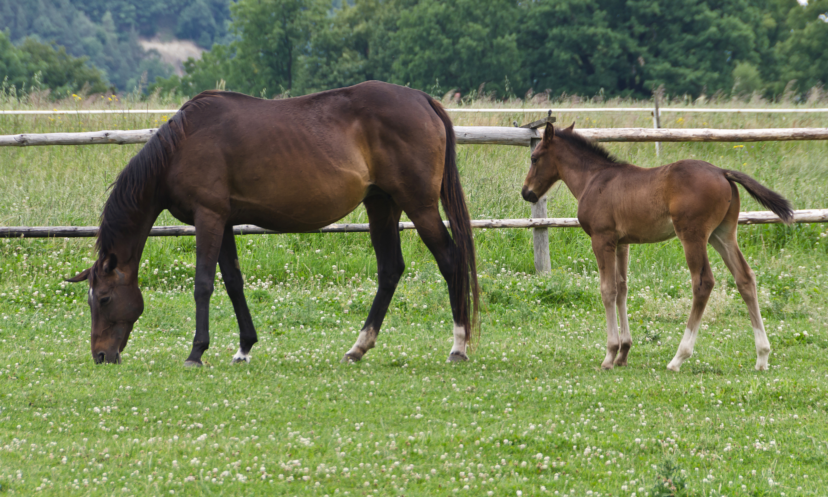 Foals with their mothers